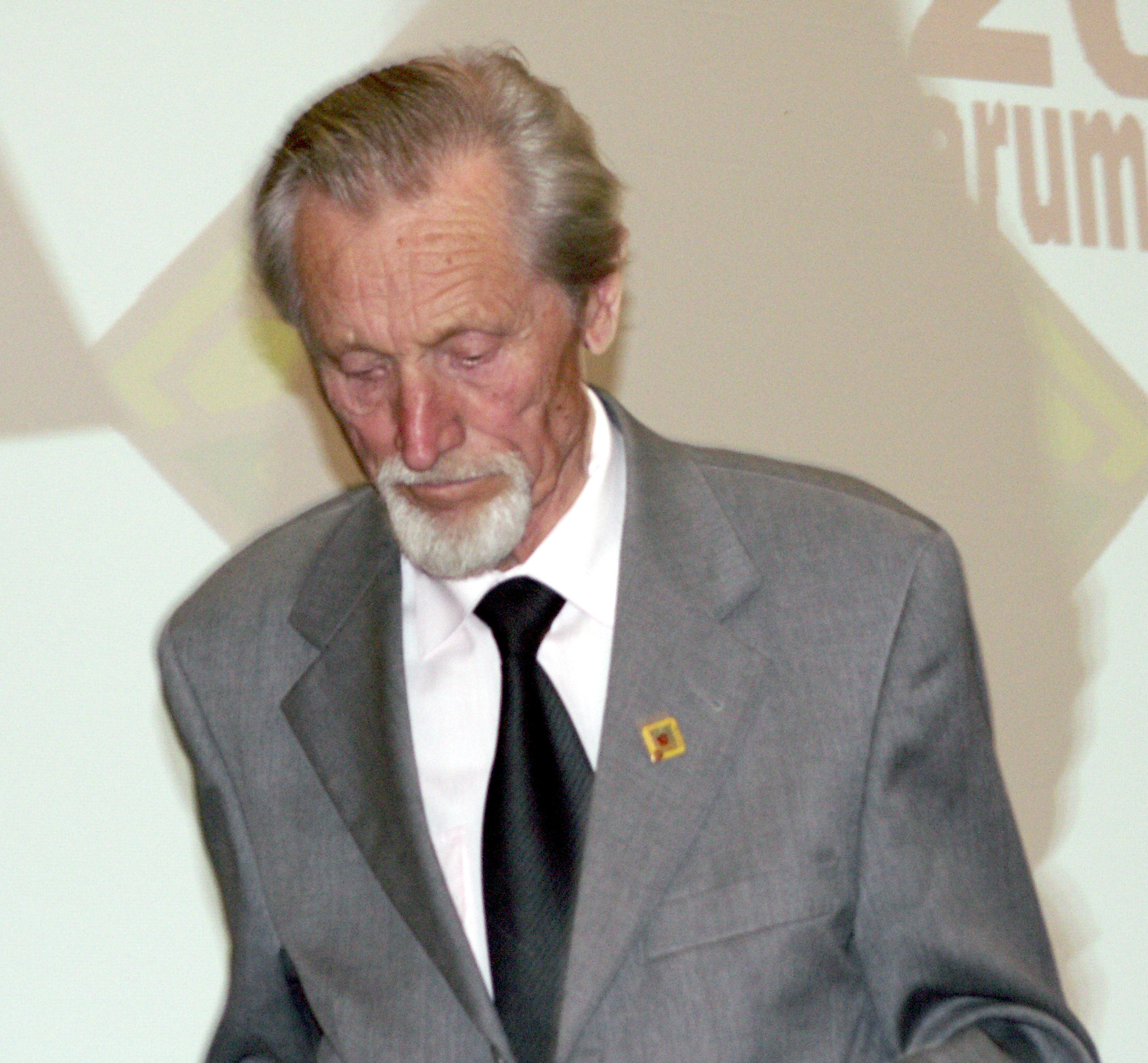 Juozas Janonis, Lithuania